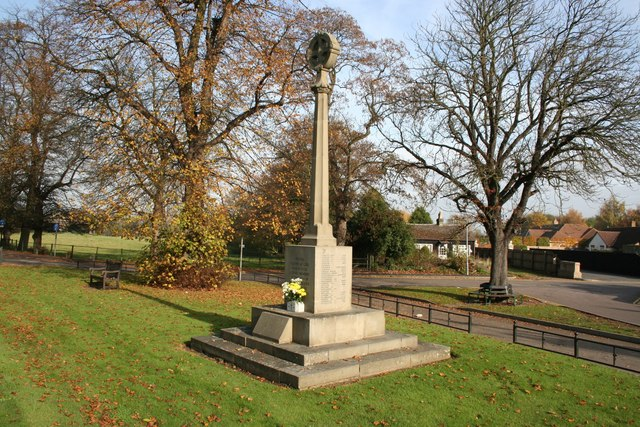 War Memorial in Godmanchester, Cambridgeshire (formerly Huntingdonshire)